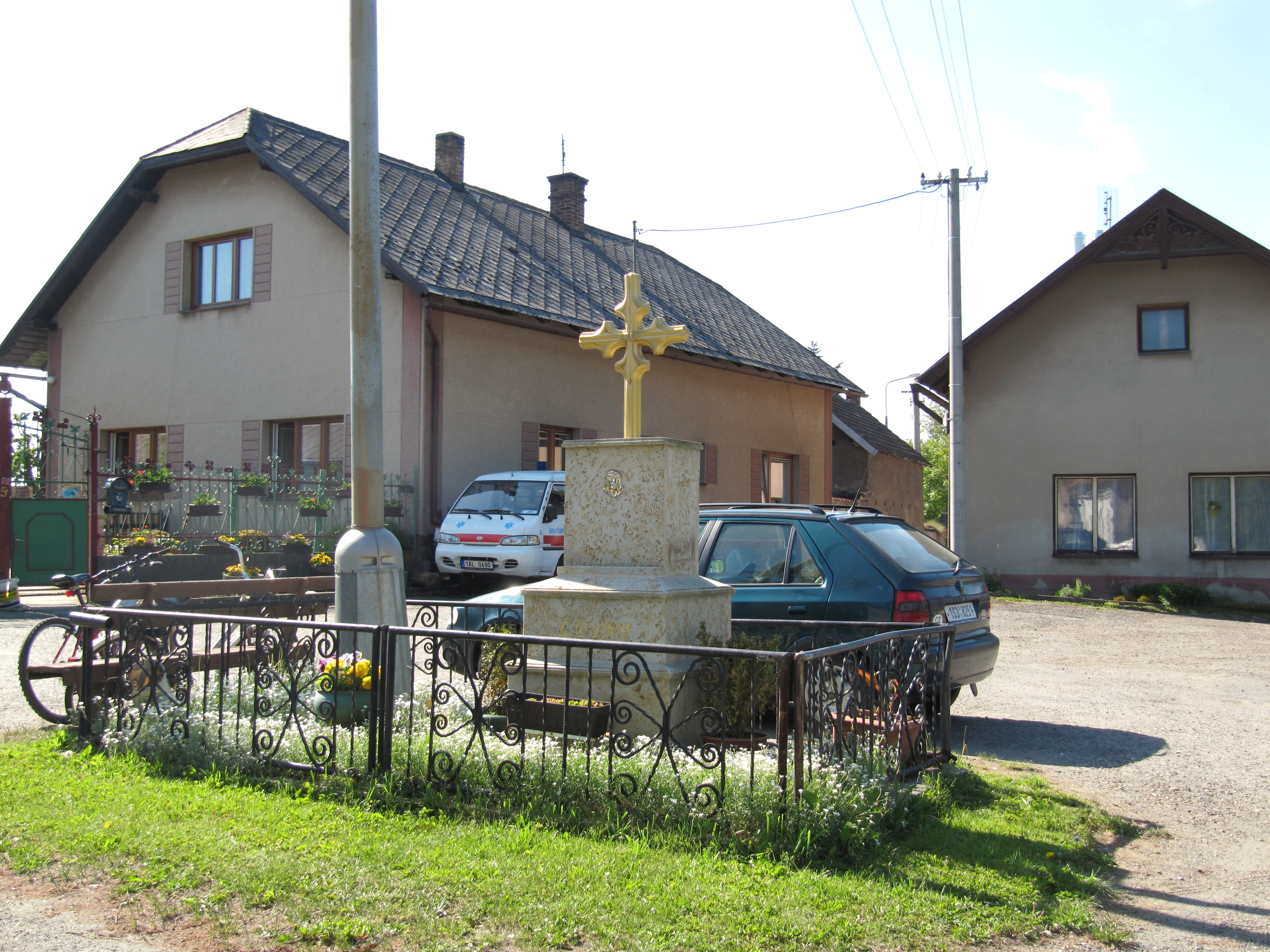 Rašovice in Kutná Hora District, Czech Republic, part Netušil. Crucifix.